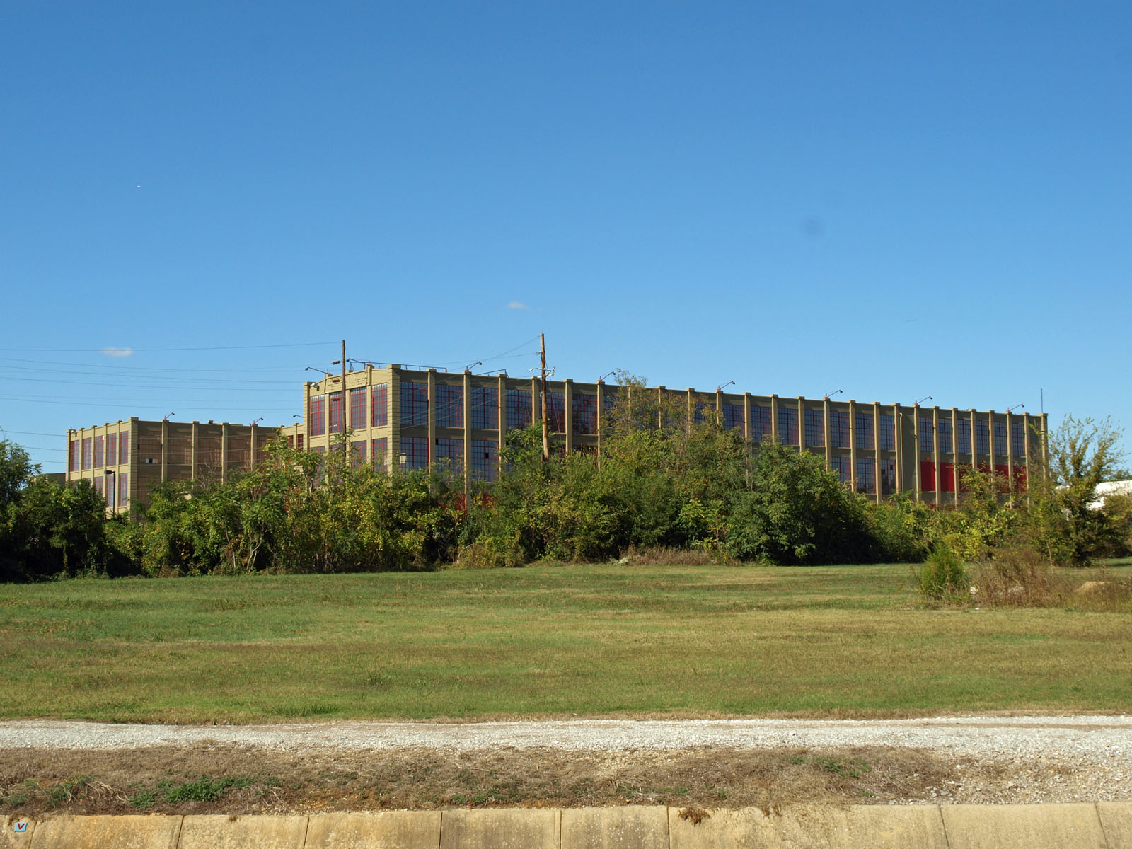 The rear of Lincoln Mill in Huntsville, Alabama. In the foreground stood Dallas Mill until a 1991 fire.